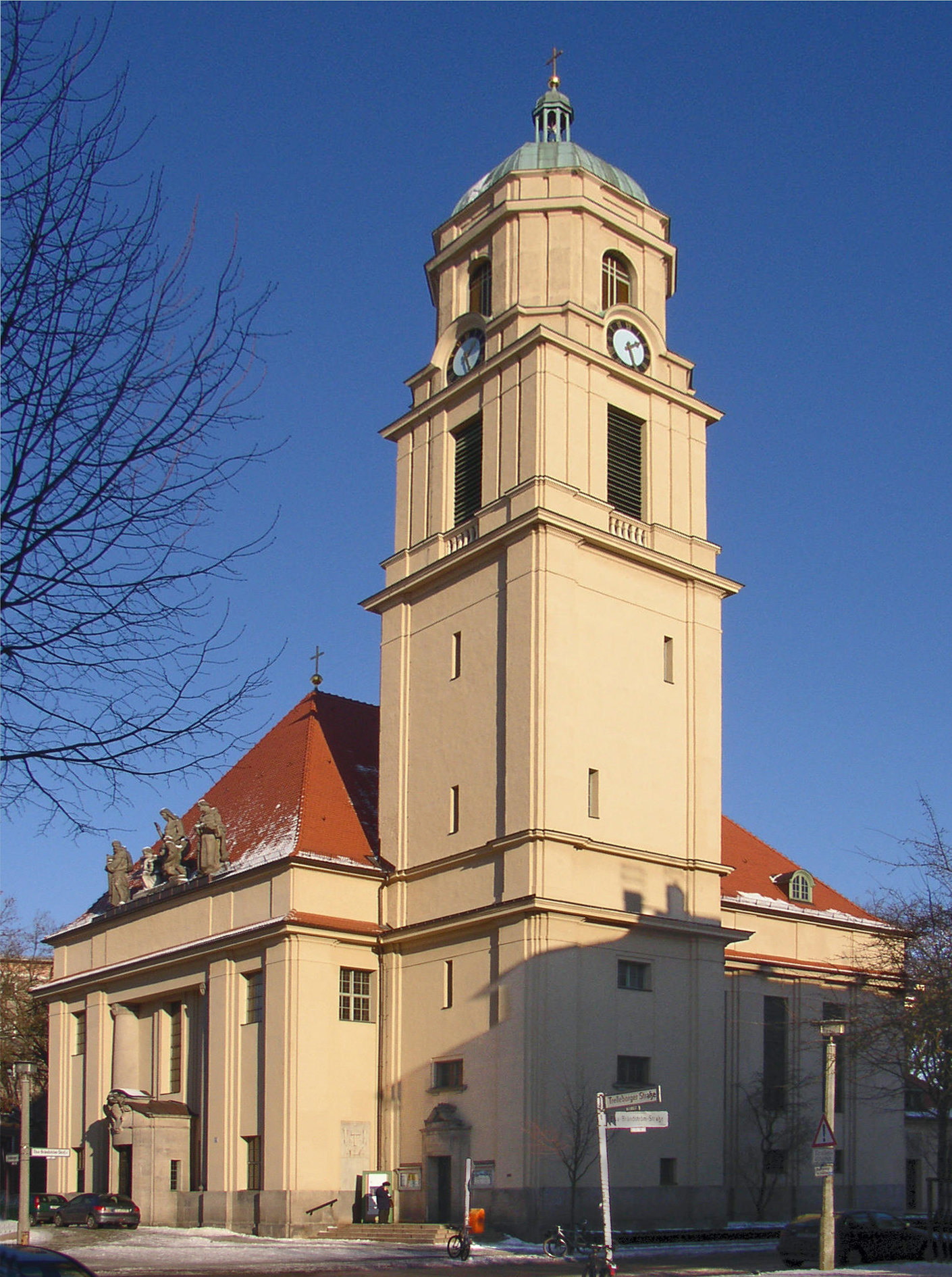 Church in Berlin-Pankow, Germany